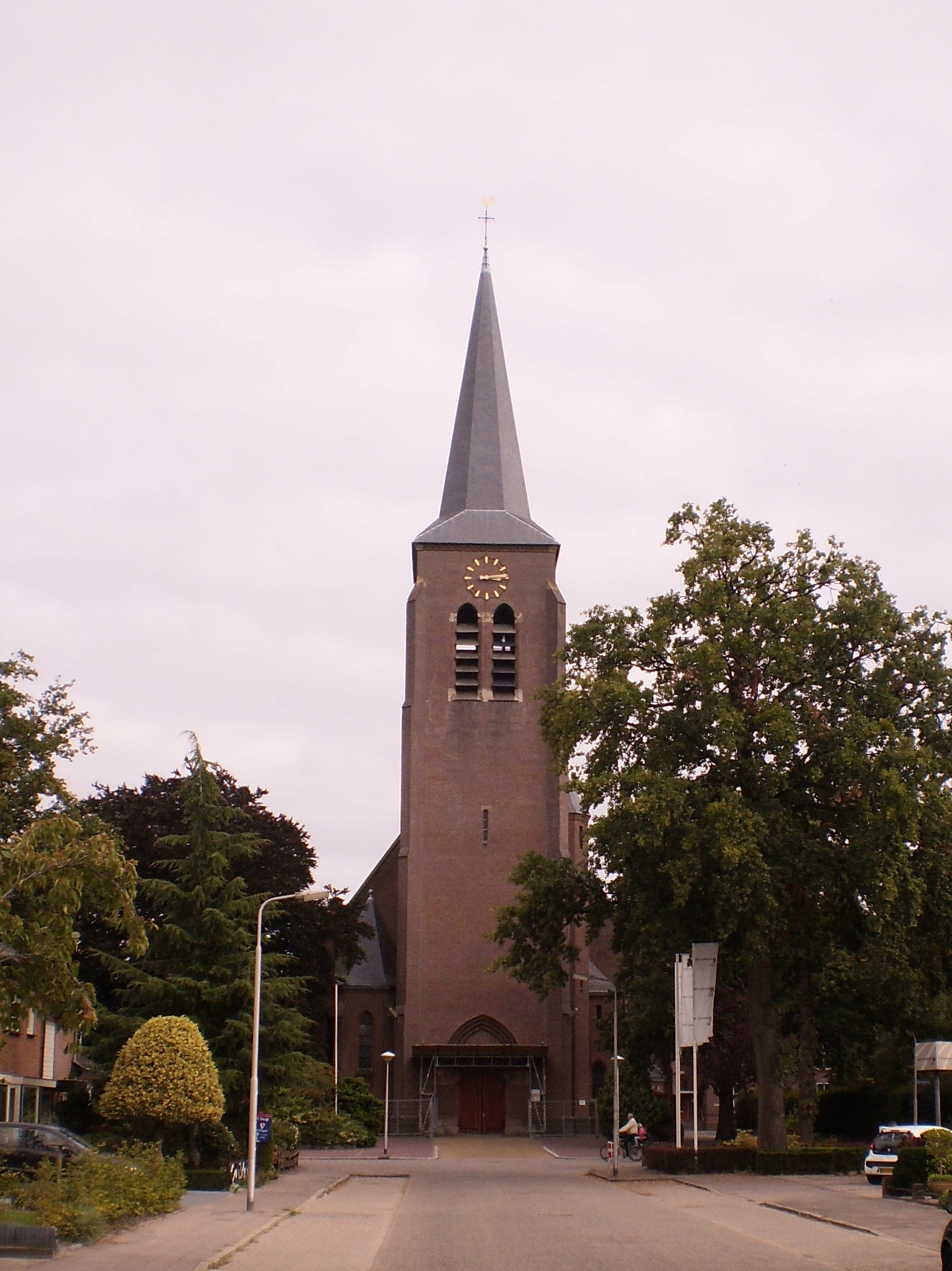 Roman Catholic church in Hoogland, NL